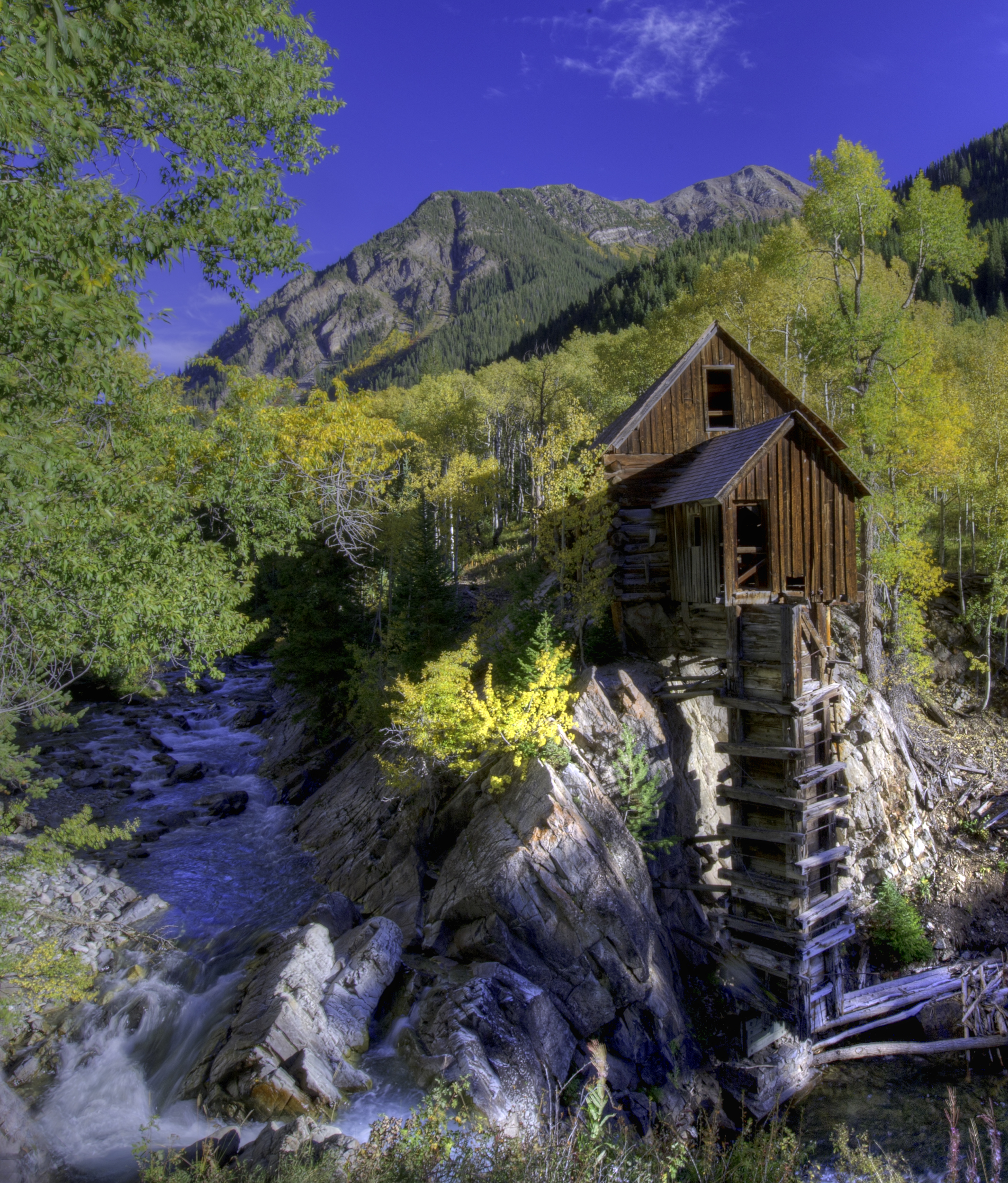 Crystal Mill